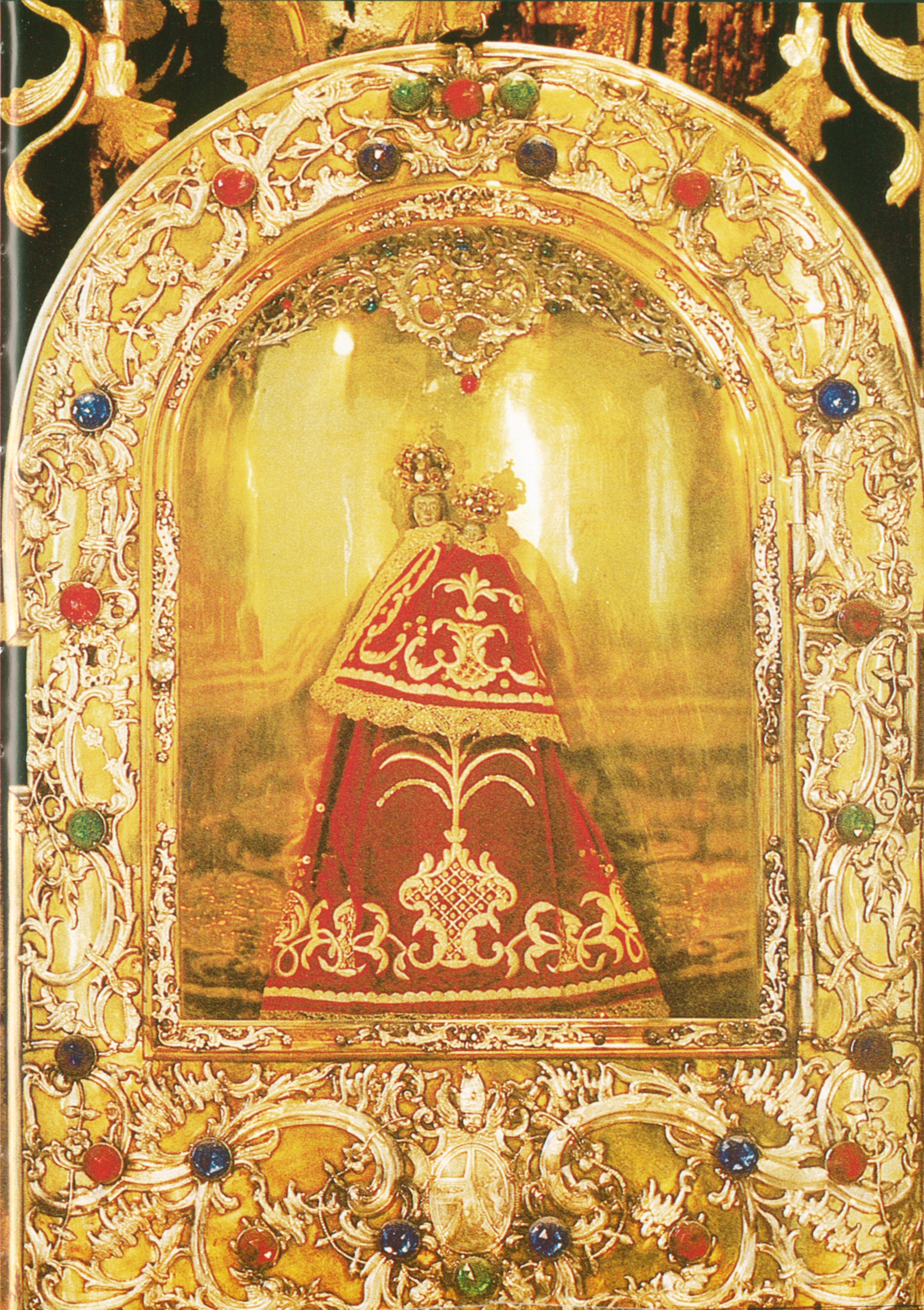 MIraculous image of Maria in der Tanne, Triberg, after 1693